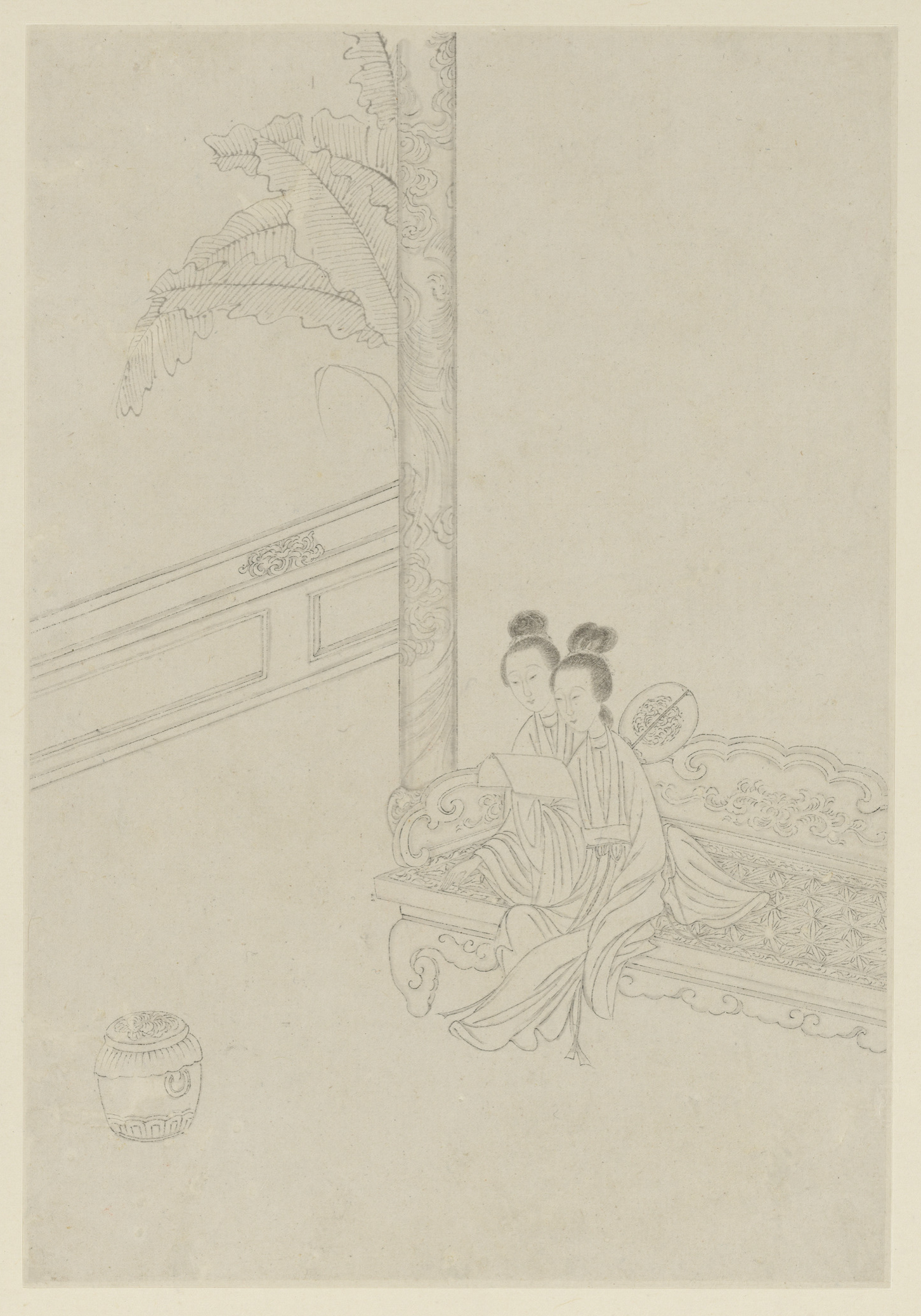 This depicts the Qiao sisters, known as the two Qiaos (二喬).